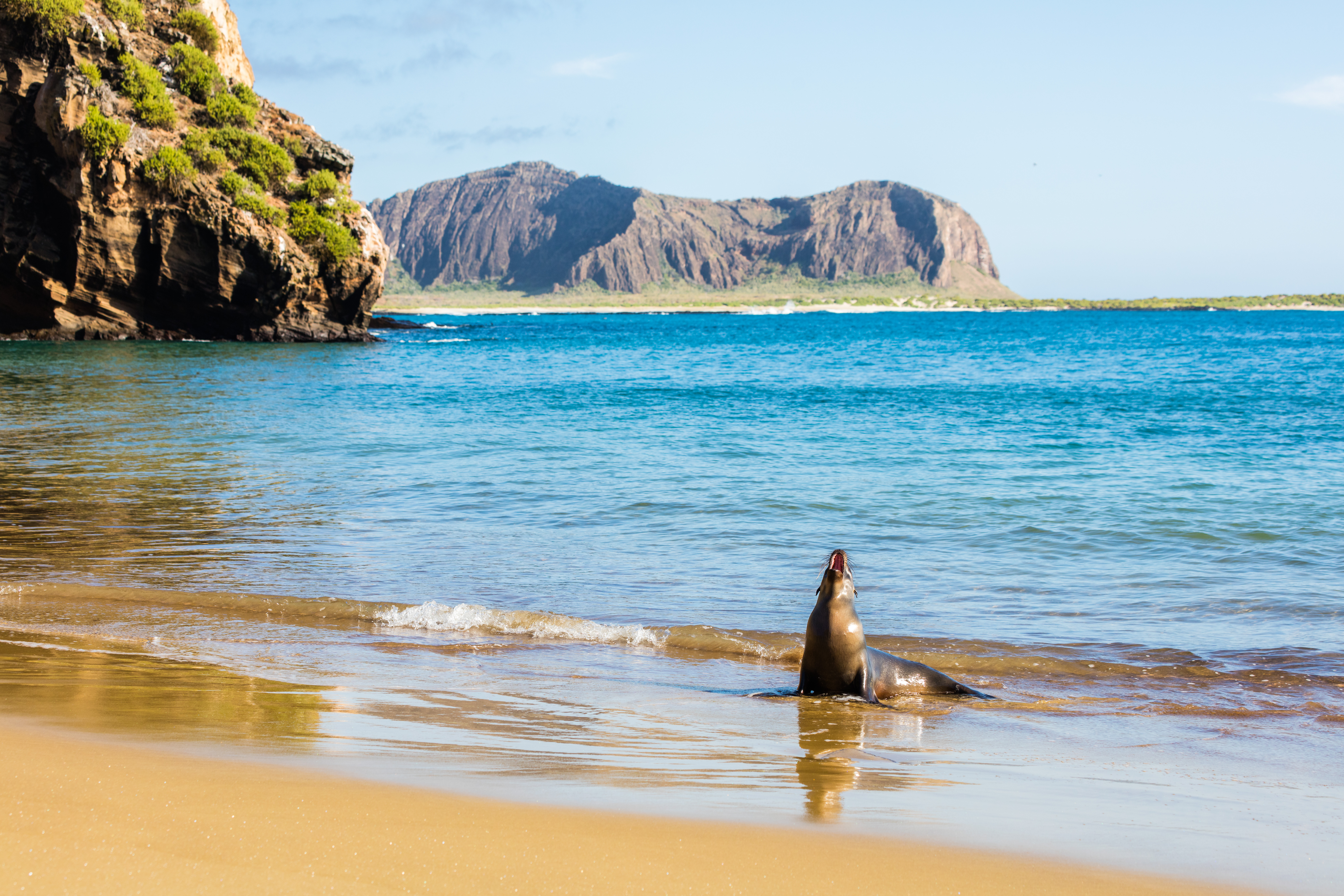 Galápagos sea lion (Zalophus wollebaeki) in Punta Pitt, San Cristóbal Island, Galápagos Islands, Ecuador.